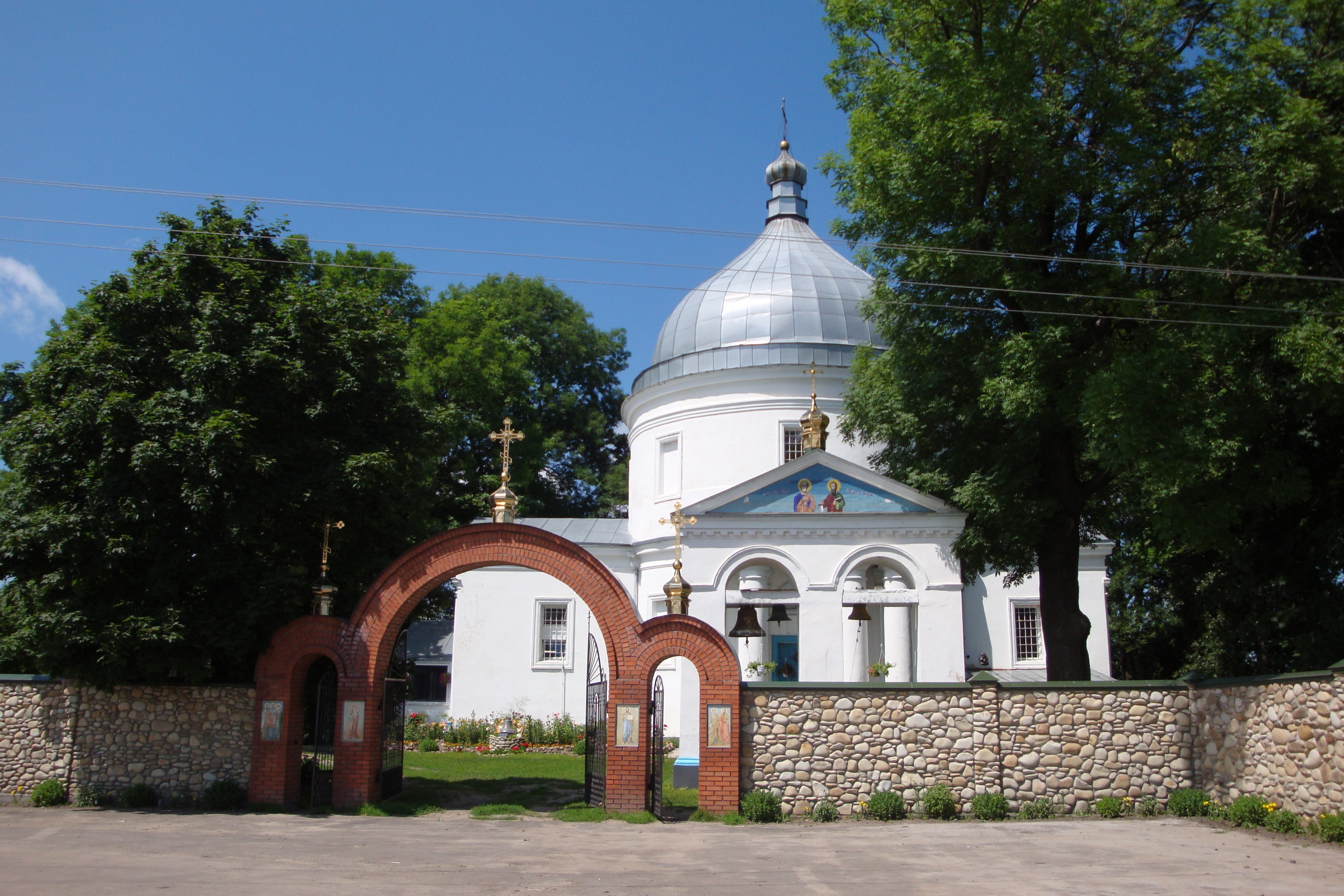 Peter and Paul Church from the south side in Svitiaz